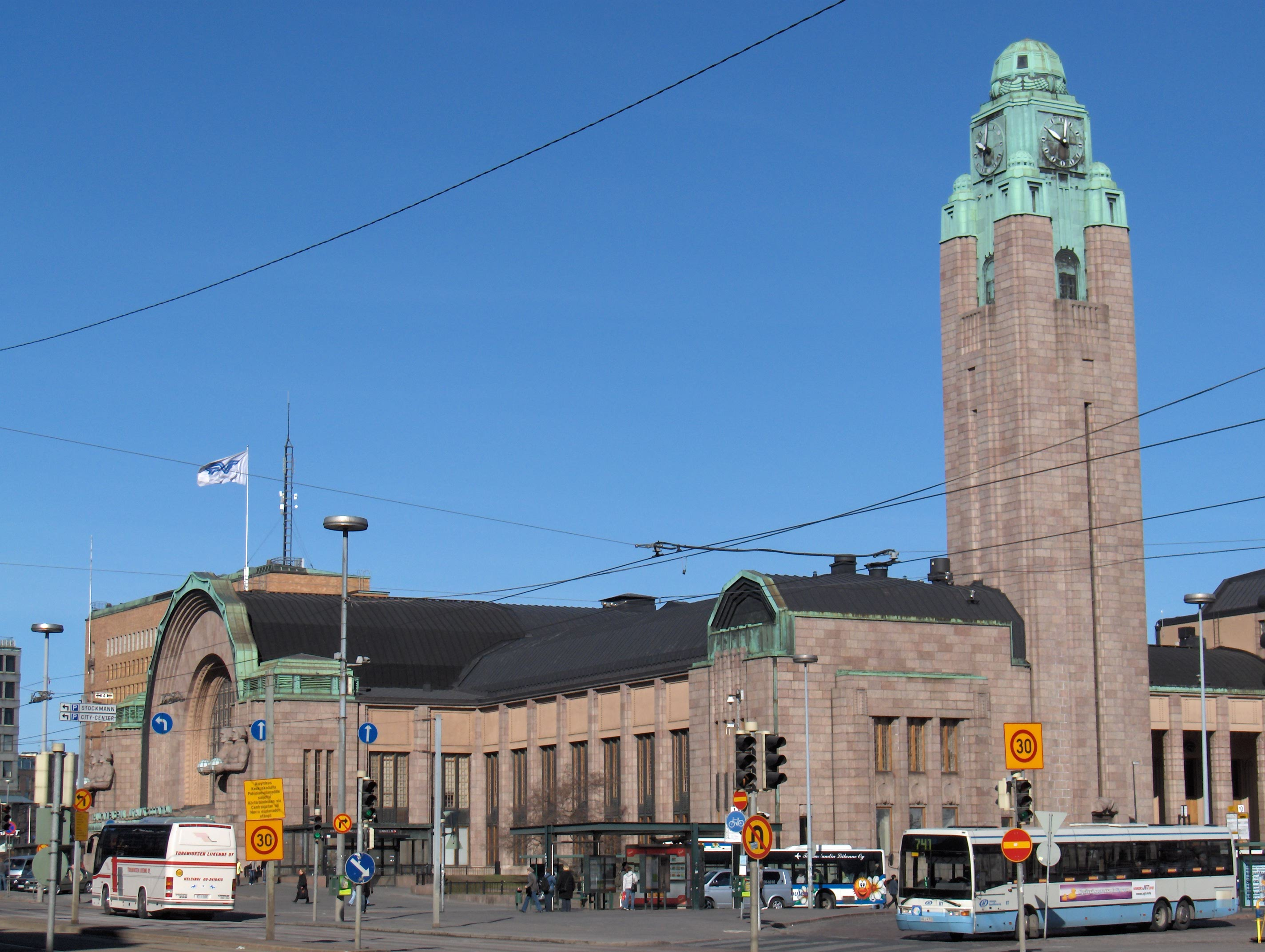 Helsinki Central railway station, Helsinki, Finland